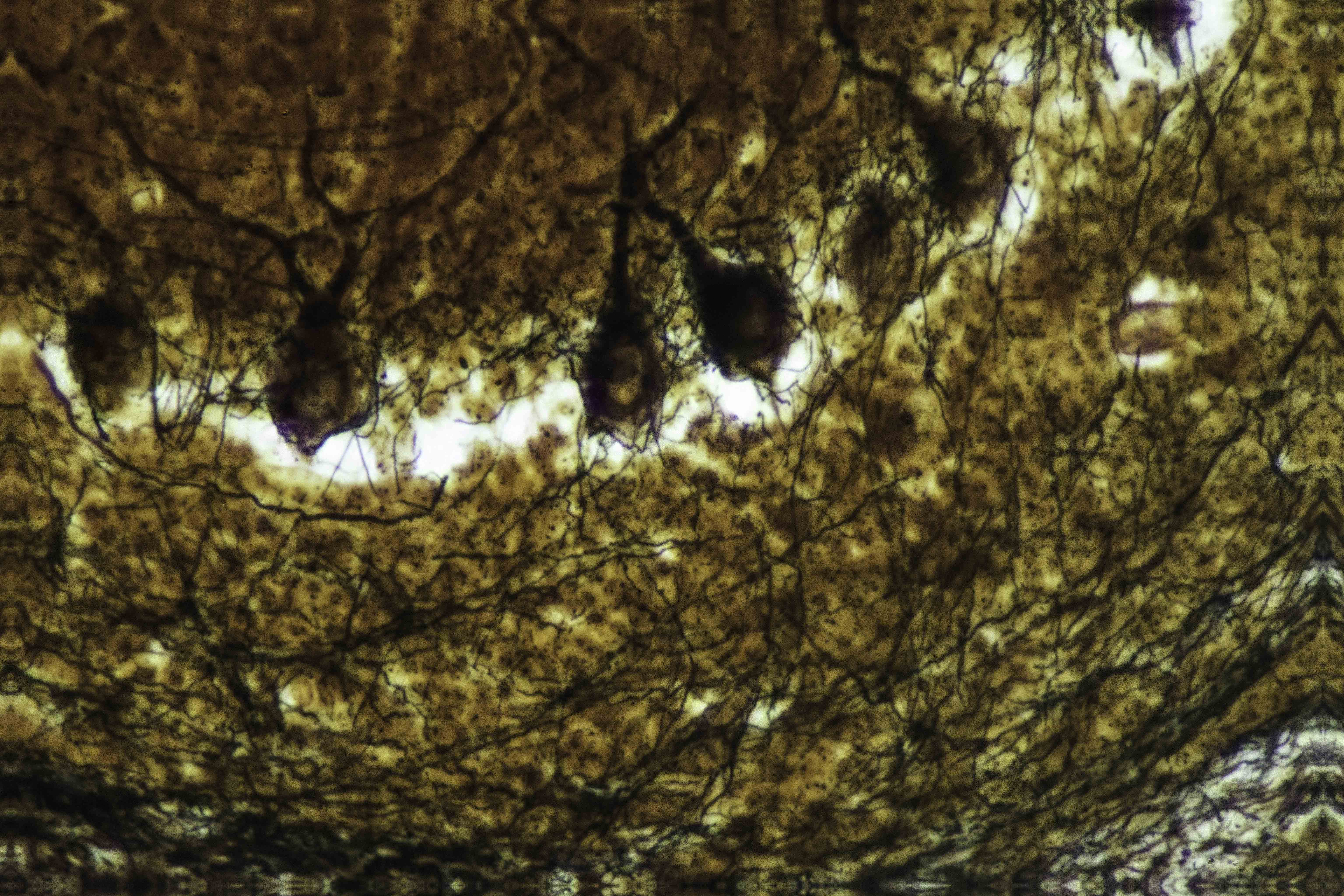 Silver stain of cerebellum tissue sample. Purkinje cells clearly visible. Stain shows intermediate filaments from dendritic extensions. In lower right corner white matter is visible. Photographed through eyepiece of Nikon YS100 microscope with Nikon D7100 with 18-55mm kit lens. Stack of 31 images modified with CombineZP.